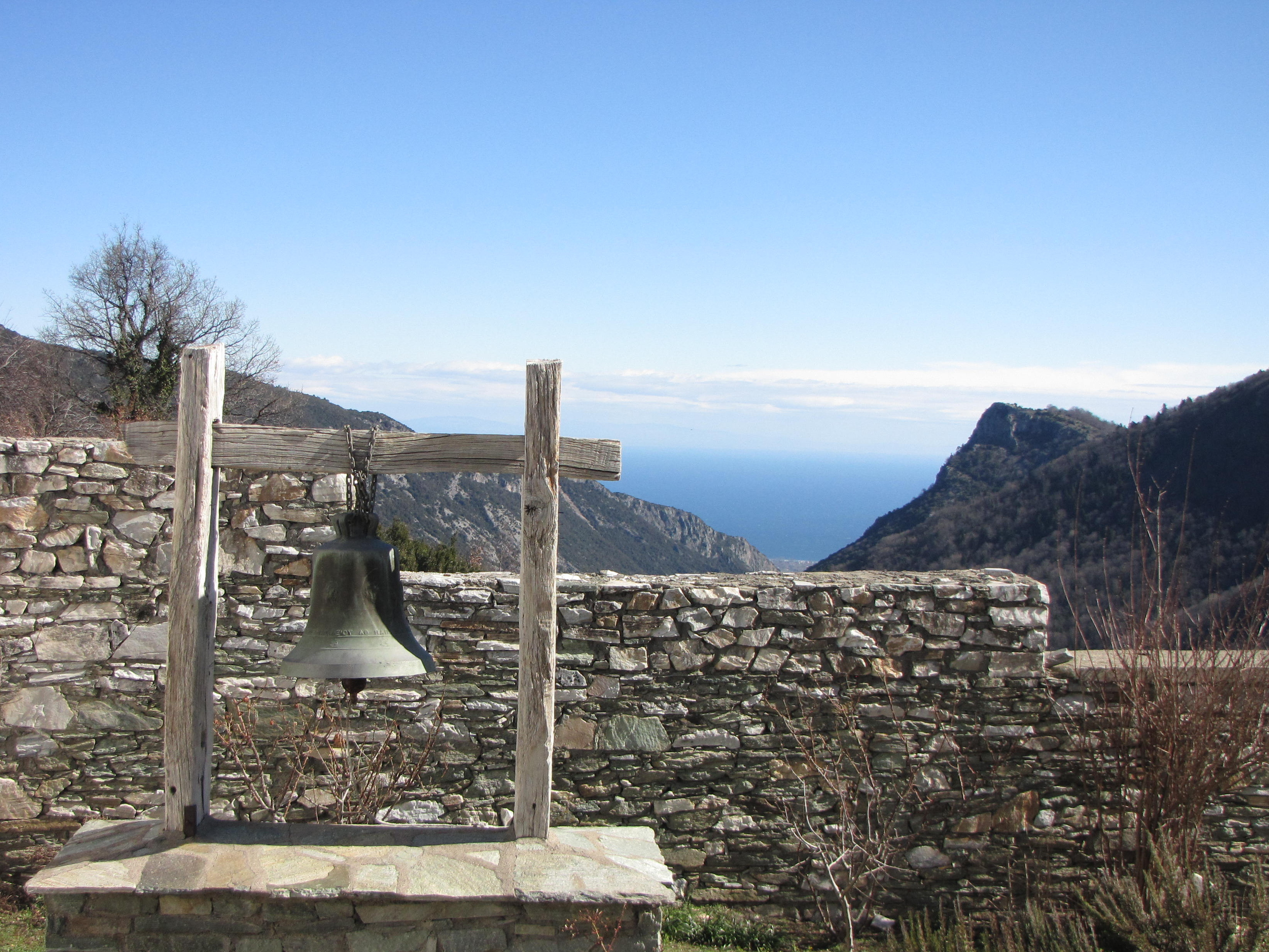 Bell at Kanalon monastery